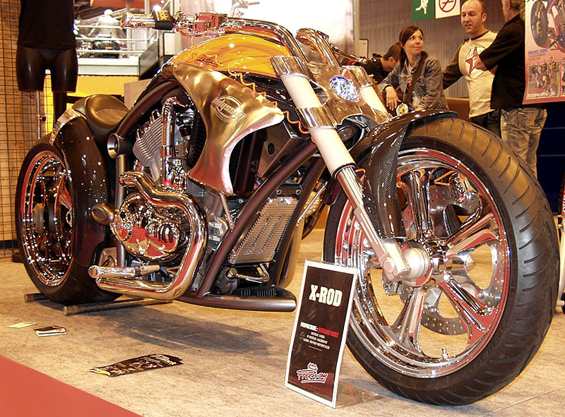 X-Rod Custombike auf Harley-Davidson „V-Rod“ Basis